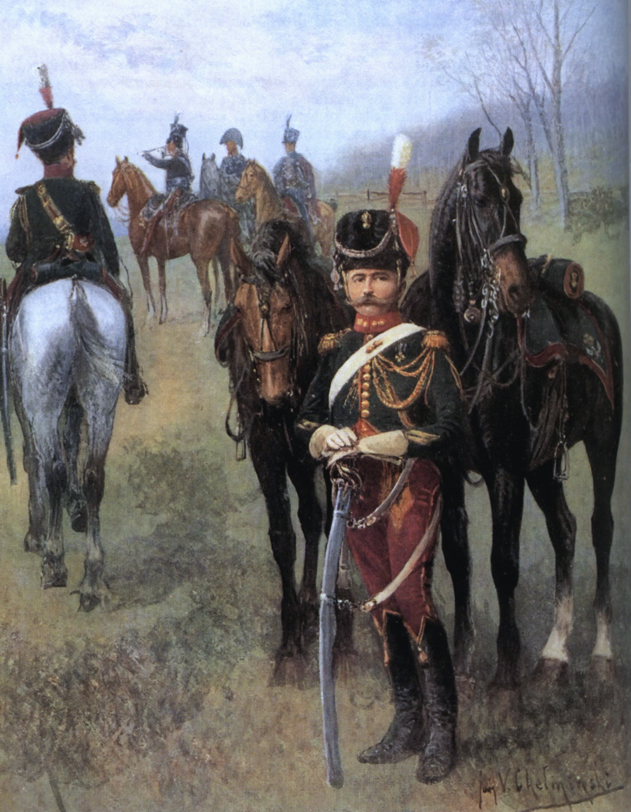 Guides of Prince Poniatowski